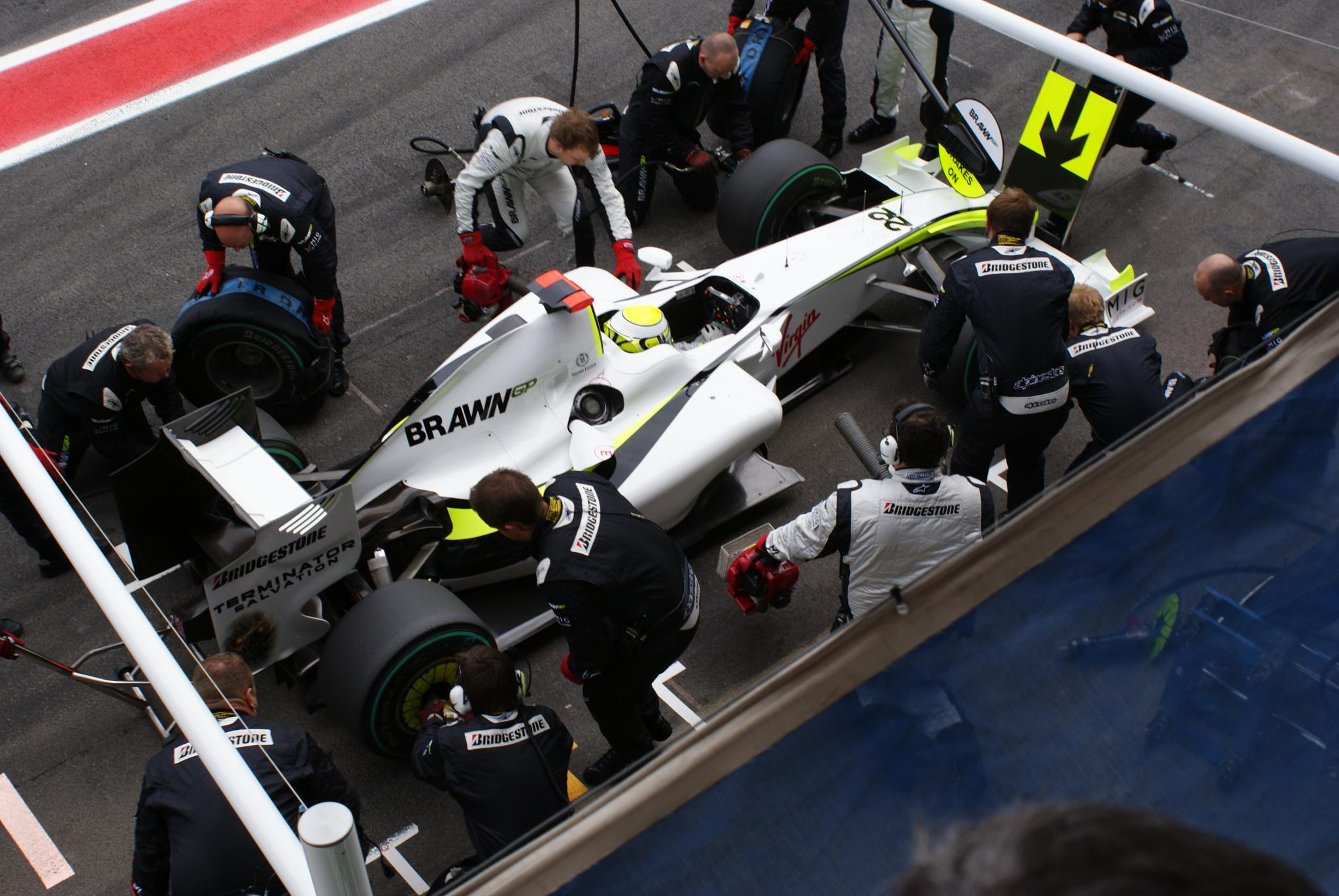 Button's pit-stop in 2009 Spanish GP qualifying